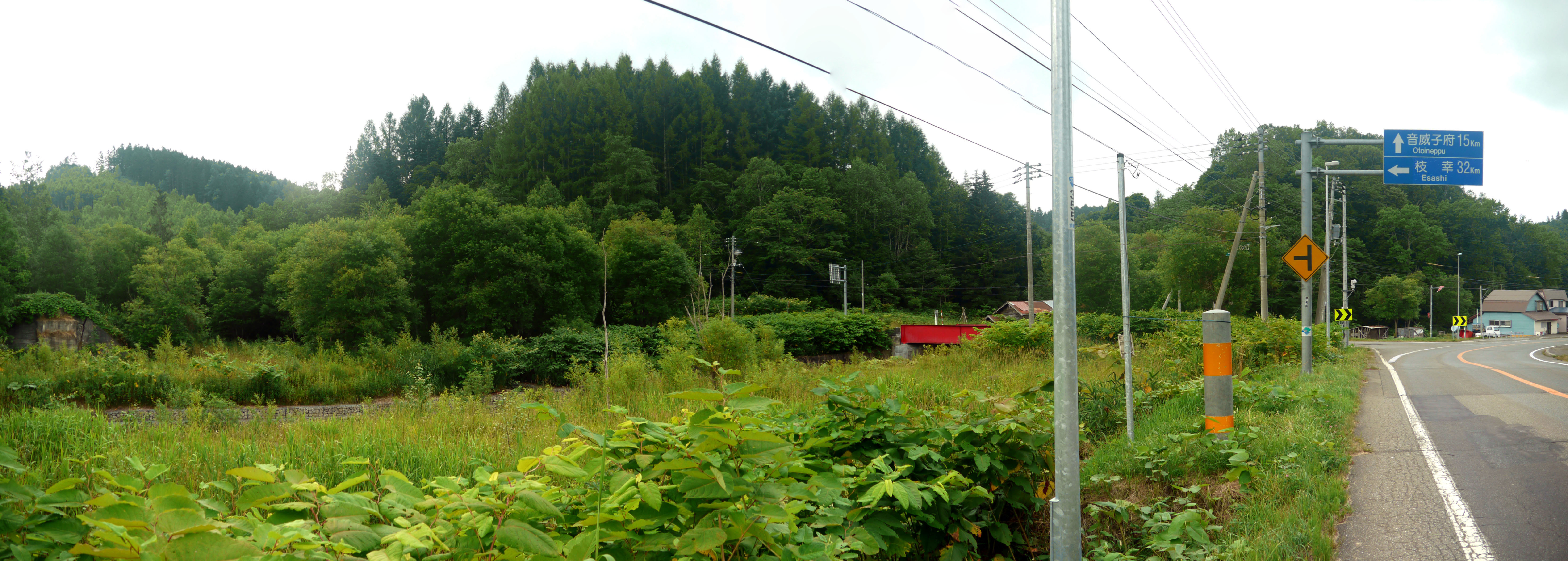 Remains of Shōtonbetsu Station of the Tenpoku Line in Hokkaido, Japan. Photo taken on August 6, 2011.